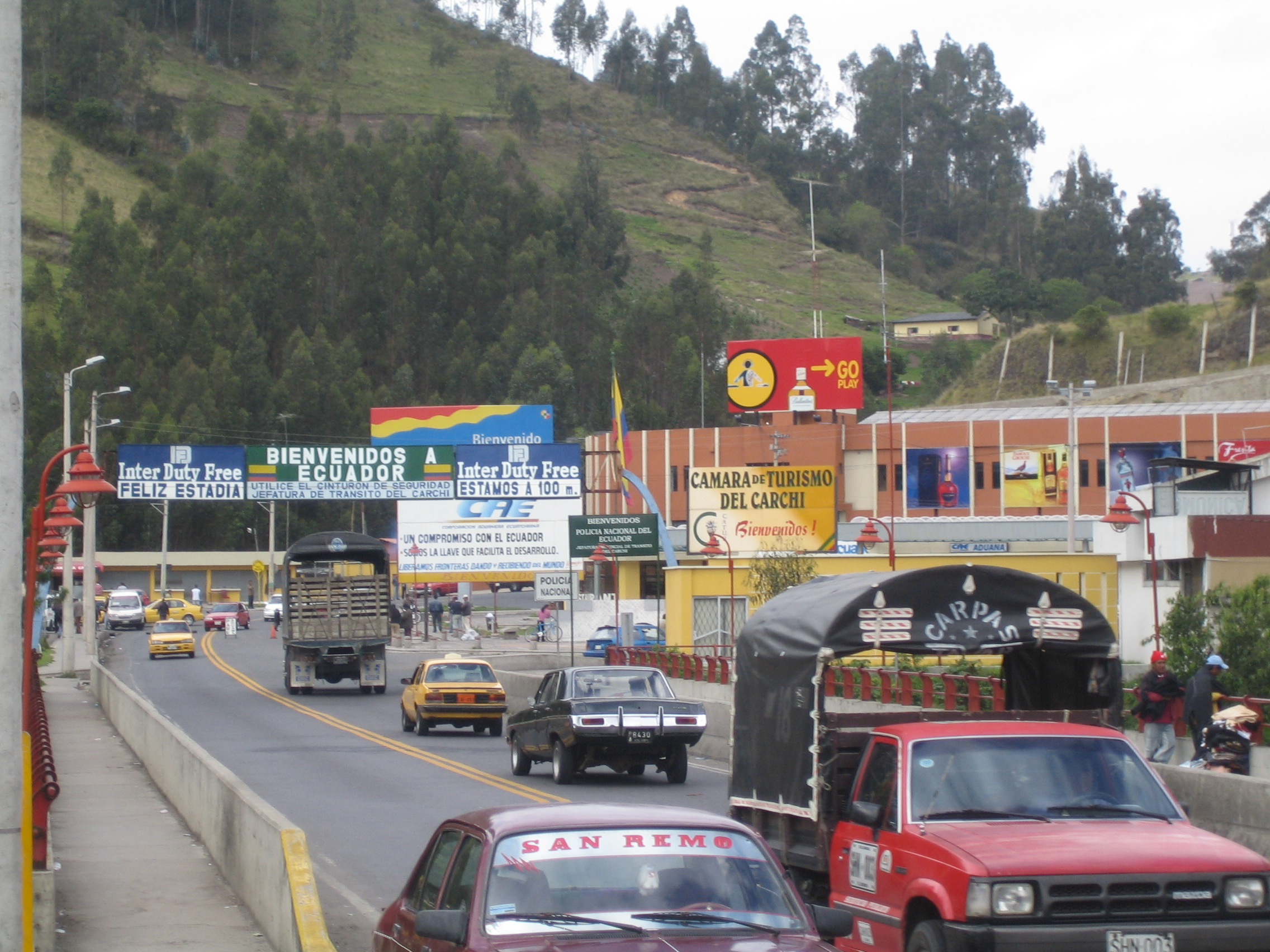 Border between Ecuador and Colombia,view of the ecuatorian side (Carchi province)